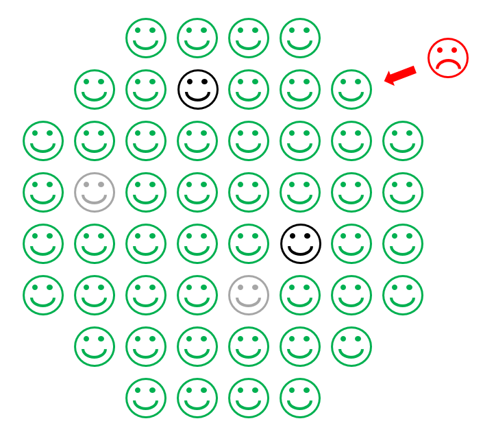 Ved full vaksinedekning vil de få som ikke er immune være beskyttet av flokkimmuniteten ved at flertallet rundt dem er vaksinerte.